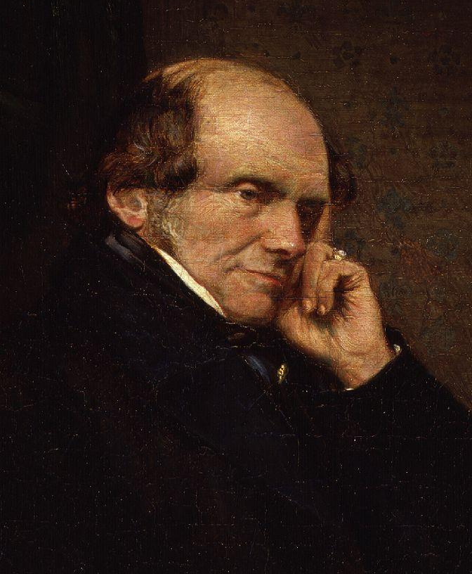 Detail of John Russell, 1st Earl Russell, by Lowes Cato Dickinson (died 1908).